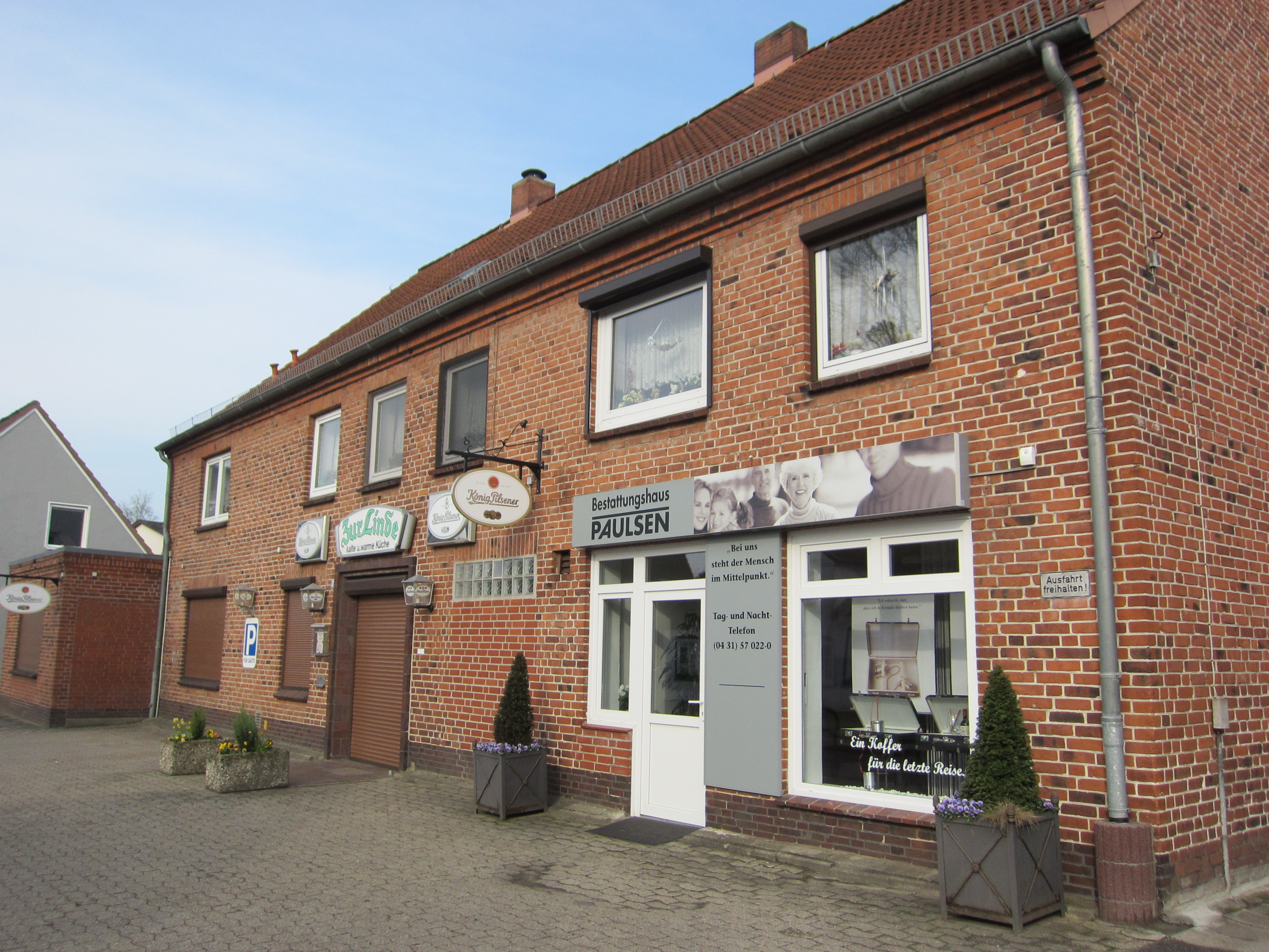 Inn "Zur Linde" in Dänischenhagen